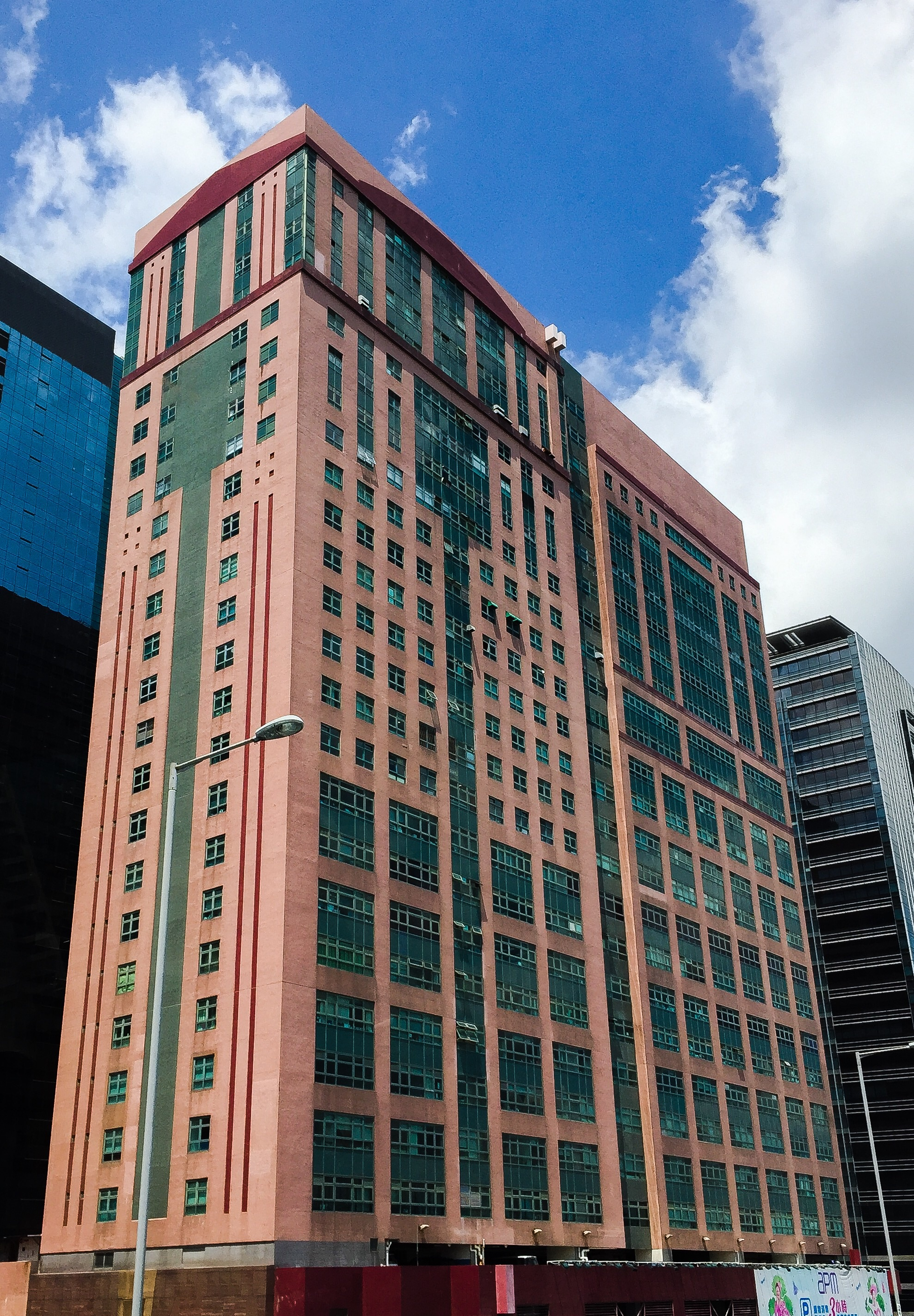 Kodak House II exterior facade